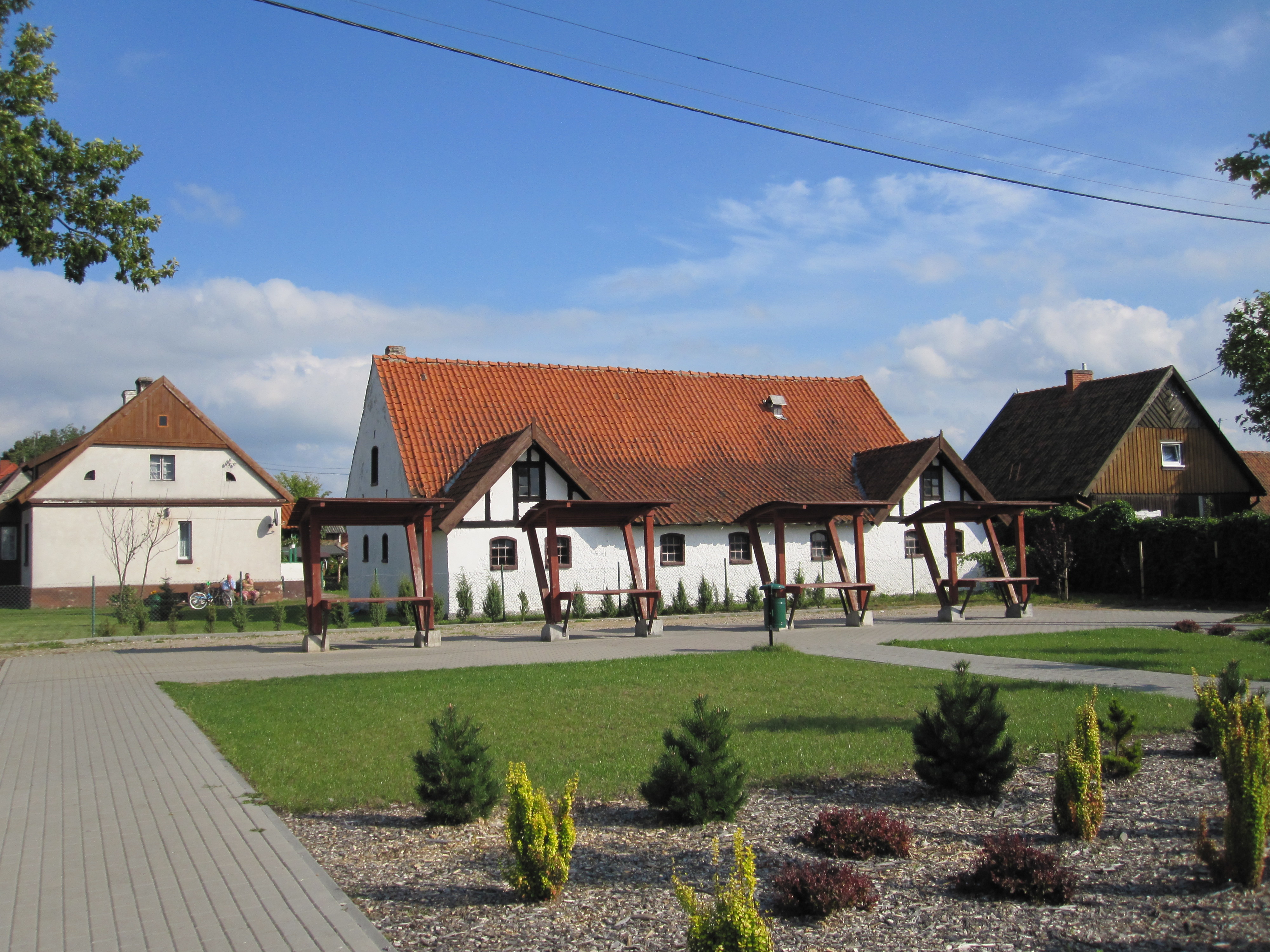 Świętajno - bus station